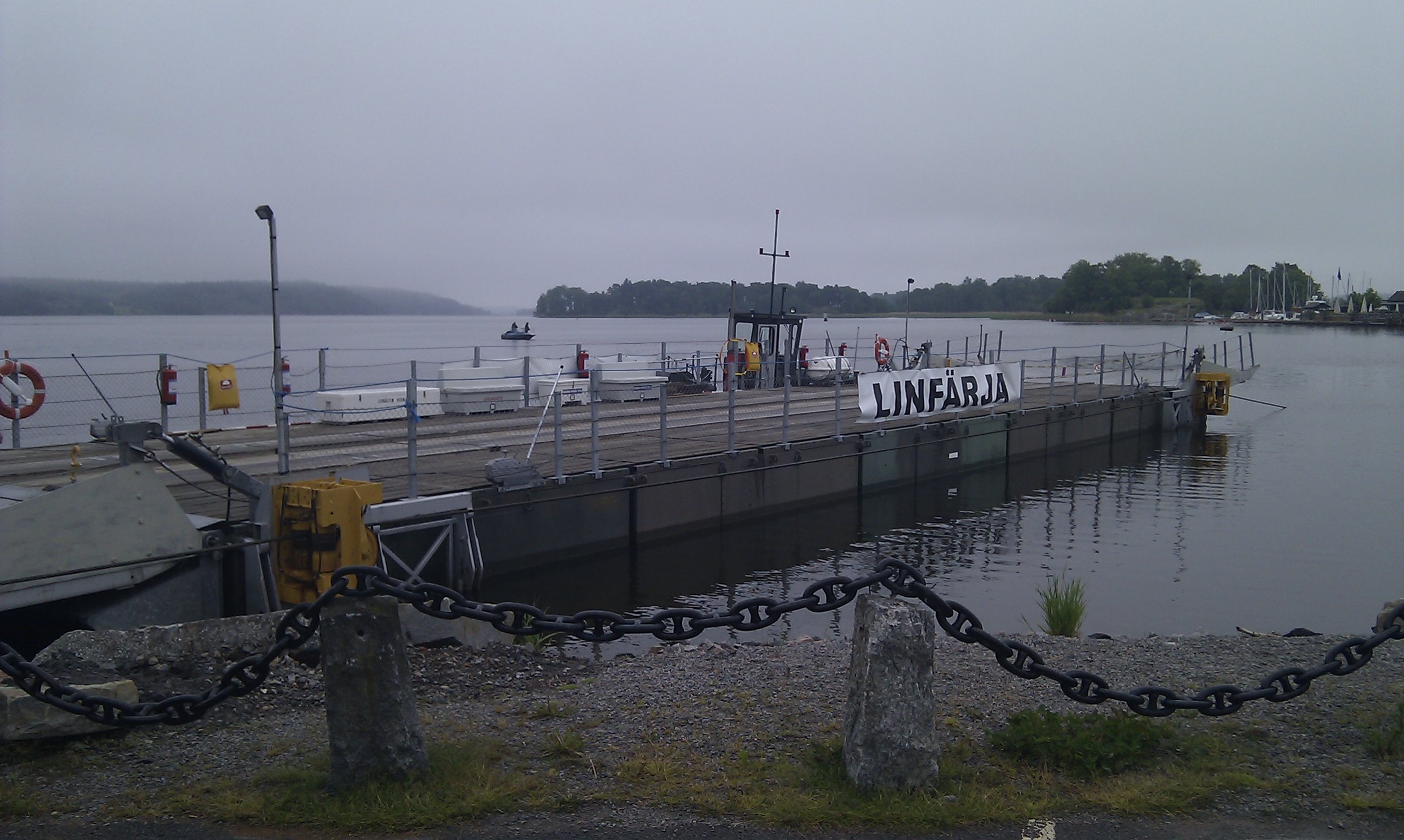 The temporary car ferry VV P100 at Stegeborg, Swedens east coast